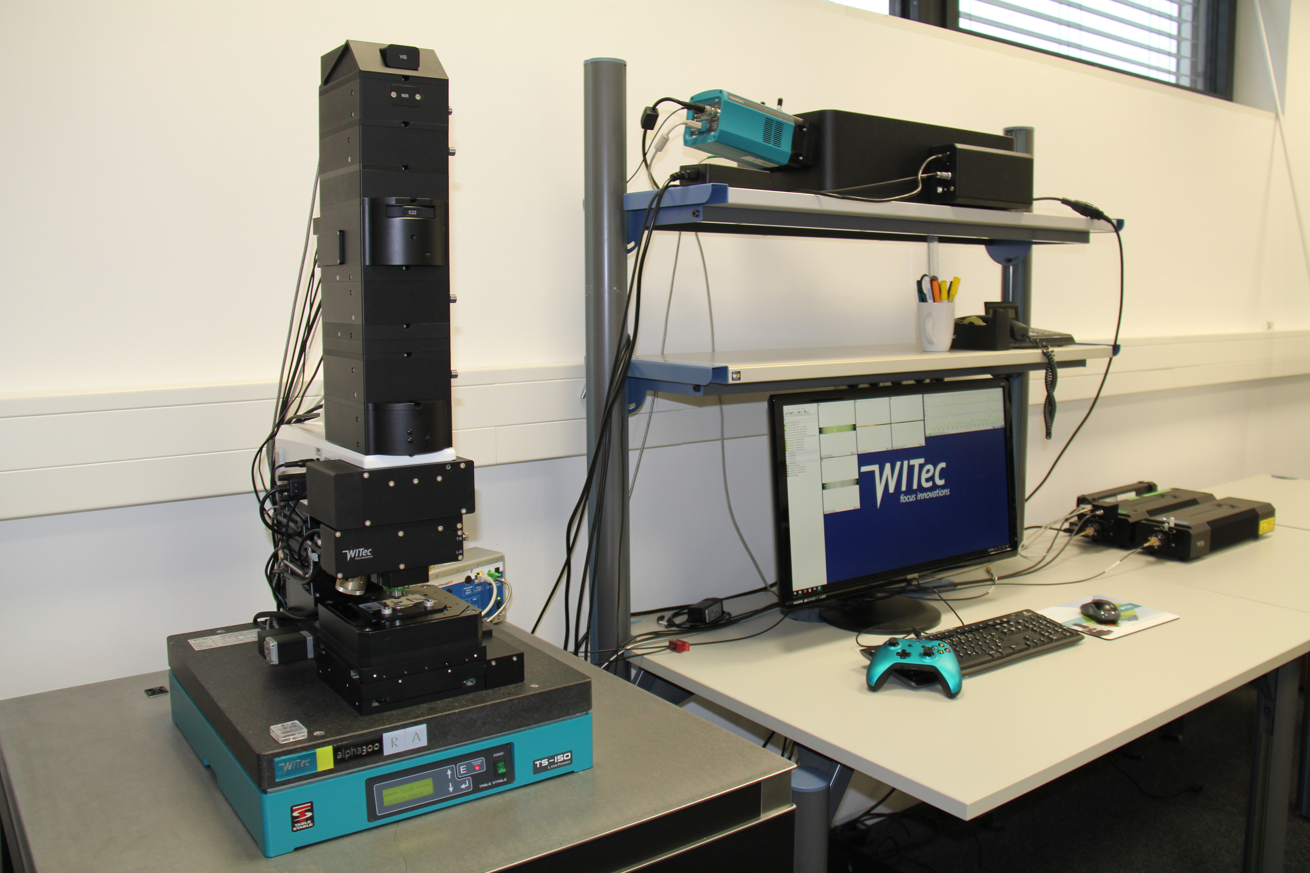 Confocal Raman microscope for Raman imaging and 3D depth scans. Two lasers excitation sources and a spectrometer are combined.